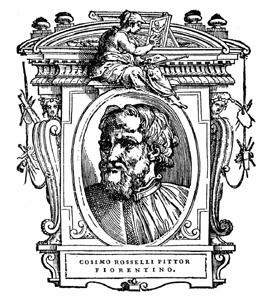 Illustratio from "Le Vite" by Giorgio Vasari, edition of 1568. For the artist portrayed see filename